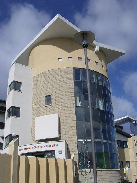 Royal Aberdeen Children's Hospital, Aberdeen, United Kingdom. The present building, opened in 2004, is one of a complex of hospital buildings at Foresterhill.